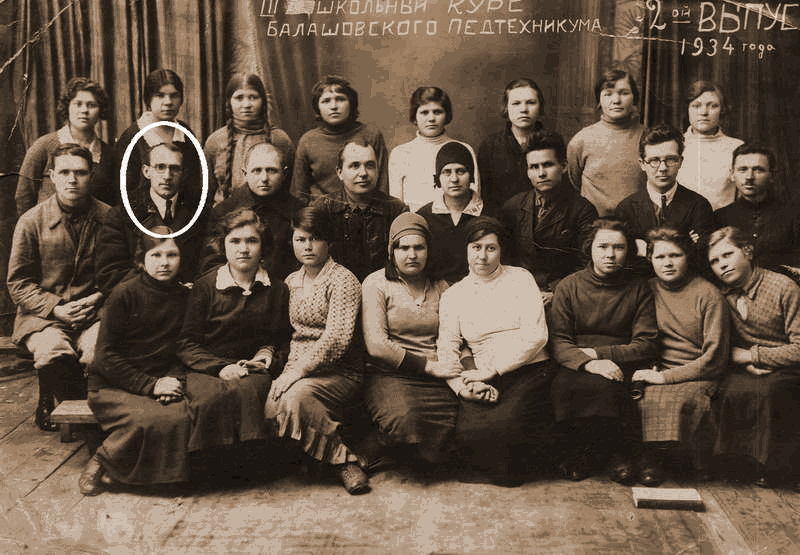 Balashov. The second release of pedagogical technical school